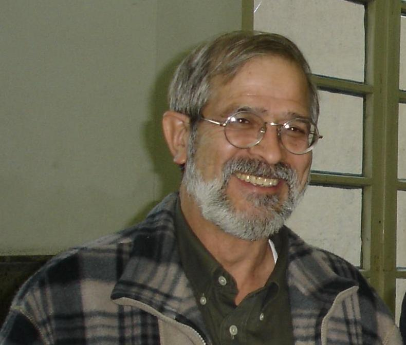 Prof MN Sarbolouki